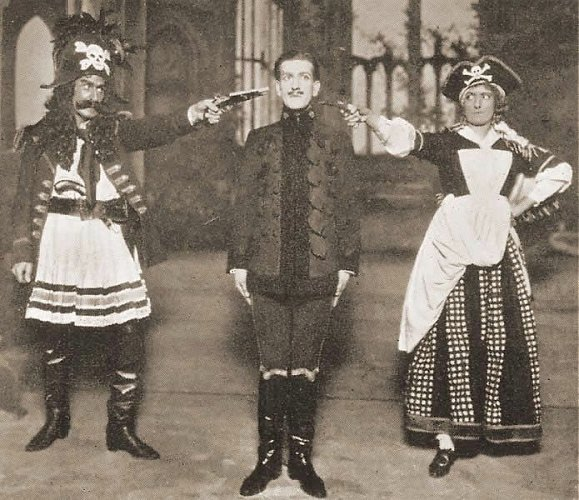 Photo of Frederick Hobbs, James Hay and Bertha Lewis in The Pirates of Penzance, 1919.